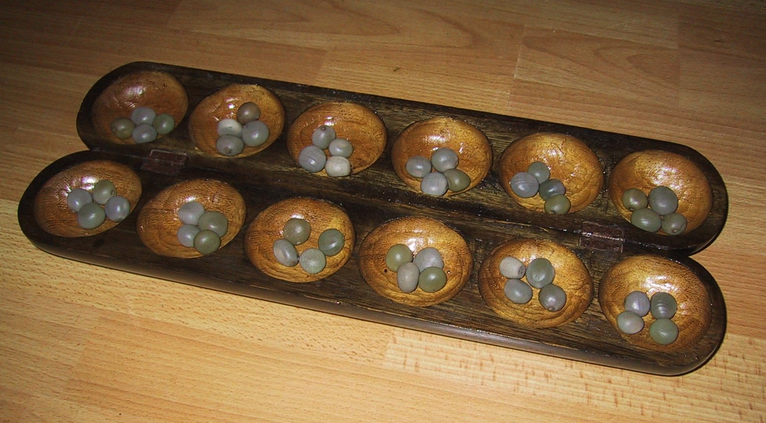 Awalé game (Mancala family) from Ivory Coast